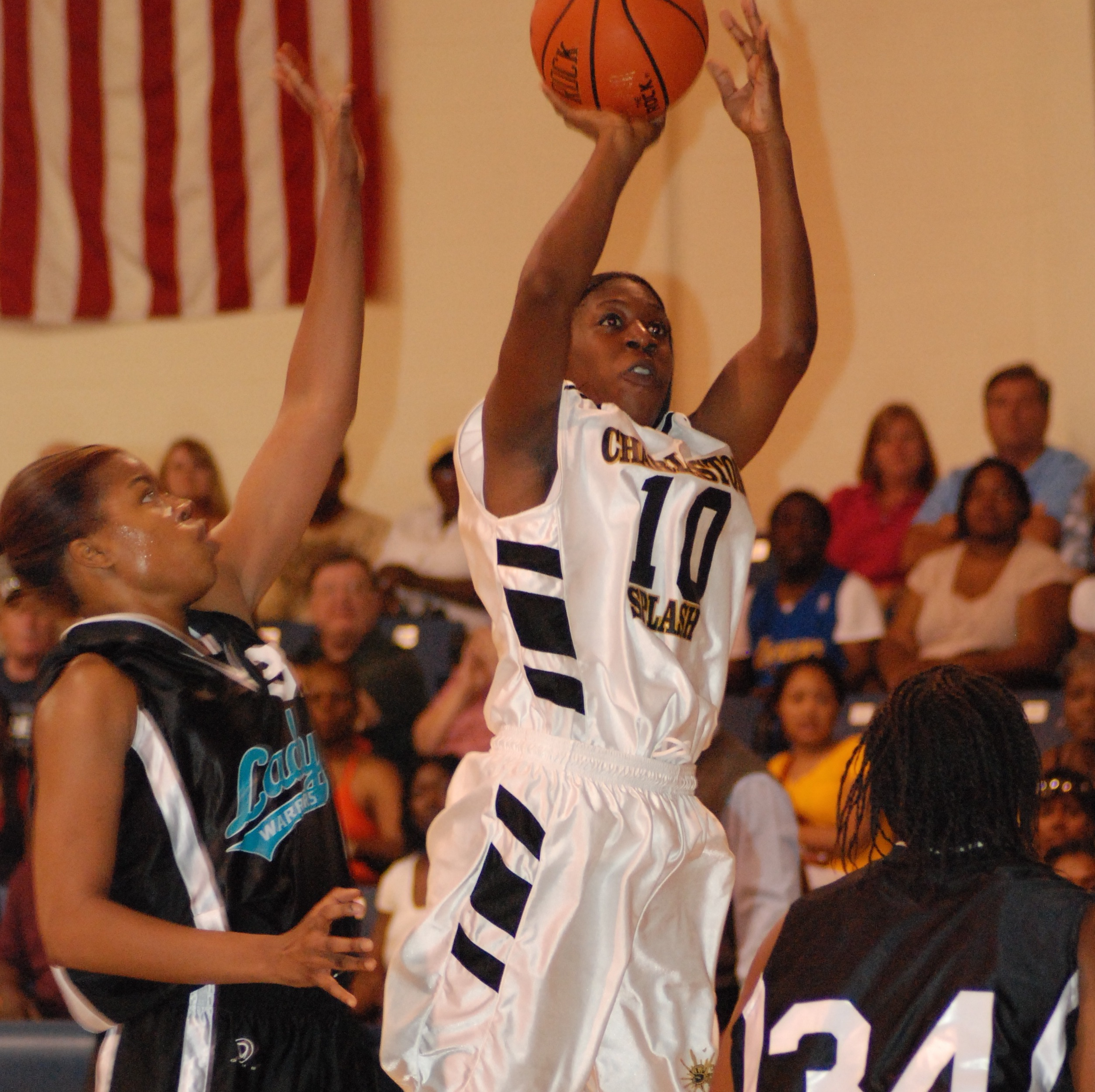 Splash Player on Fire